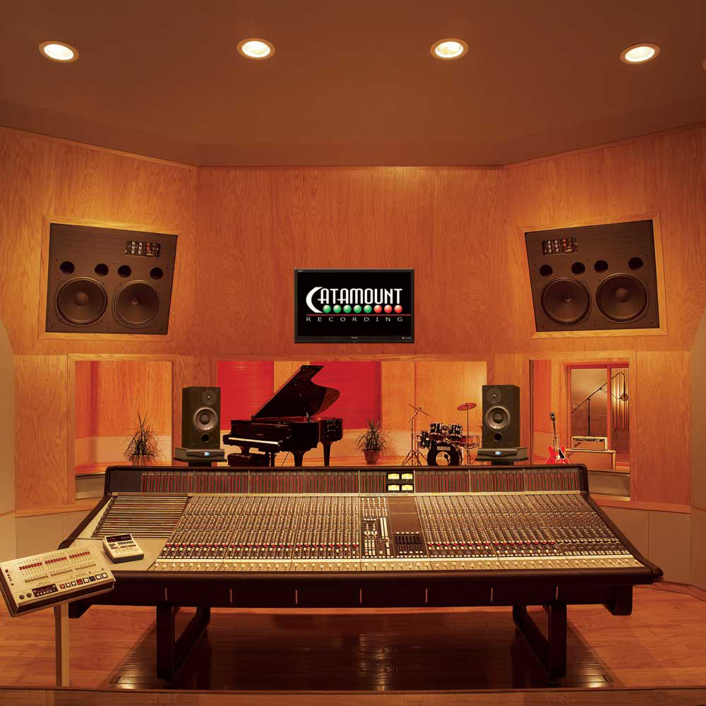 Located in Cedar Falls, Iowa, Catamount specializes in album production, with more than 300 releases to date. Record company clients: Roadrunner, Warner Brothers, Columbia, Wind Up, SubPop, Grass/BMG, Shrapnel/Relativity, Word, Link/Hollywood, Time/Warner, Simon & Schuster, and many others. The facility was designed by Carl Yanchar of Wave-Space LA and built from the ground up in 2002.